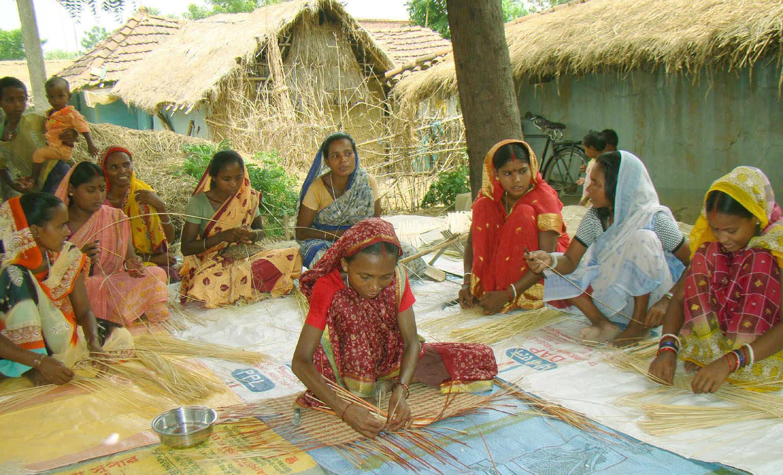 ESAF Bamboo product making unit in Dumka, Jharkhand